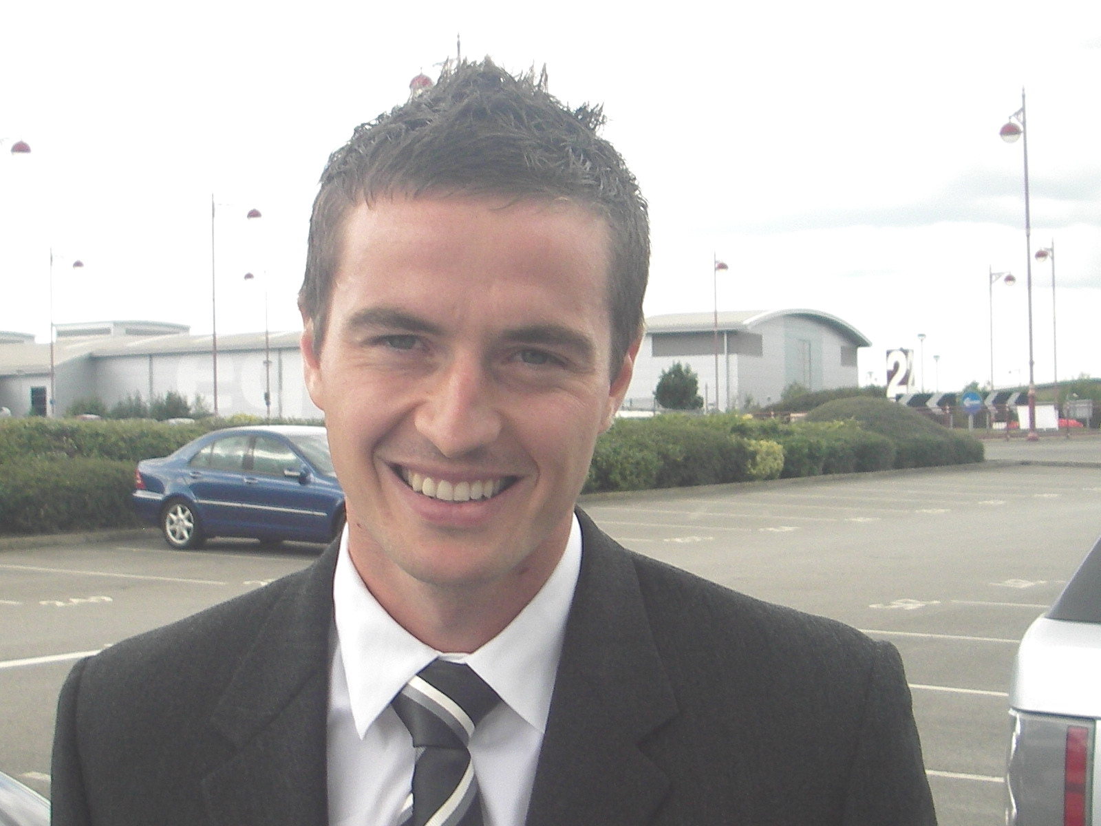 Matthew Oakley, Derby County player.